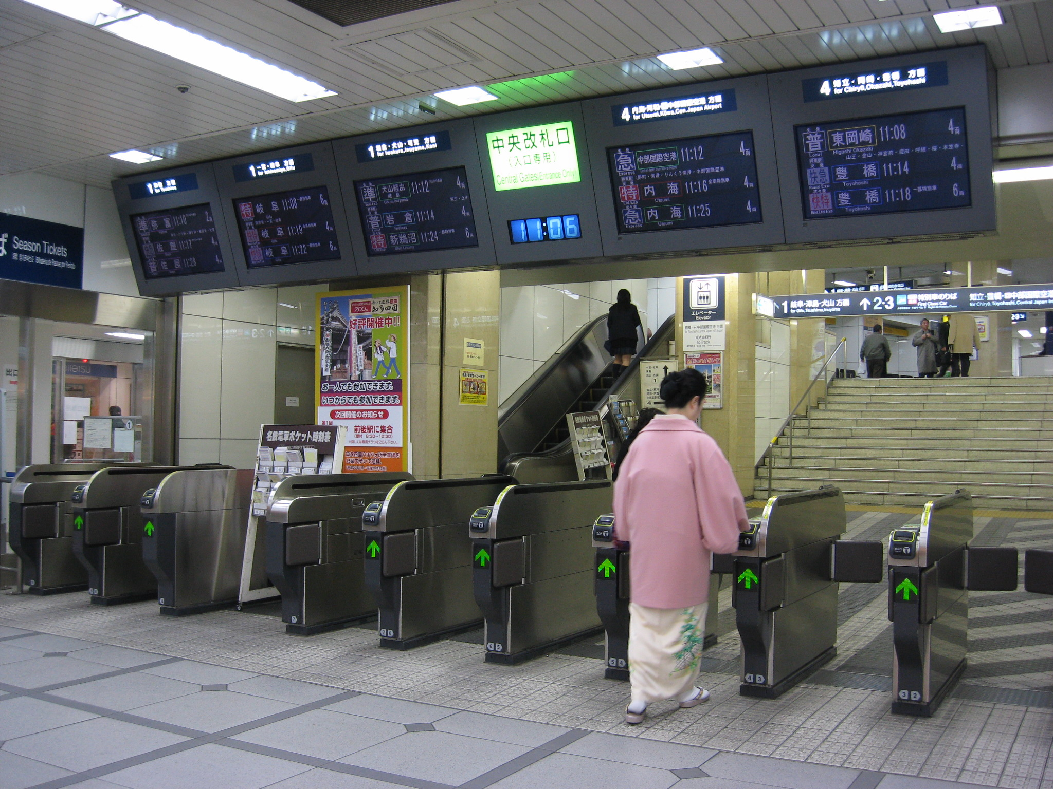 名鉄名古屋駅の中央改札口 (Meitetsu Nagoya Station Central Gate)